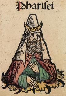 This is a part of a scan of an historical document: Title: Schedelsche Weltchronik or Nuremberg Chronicle